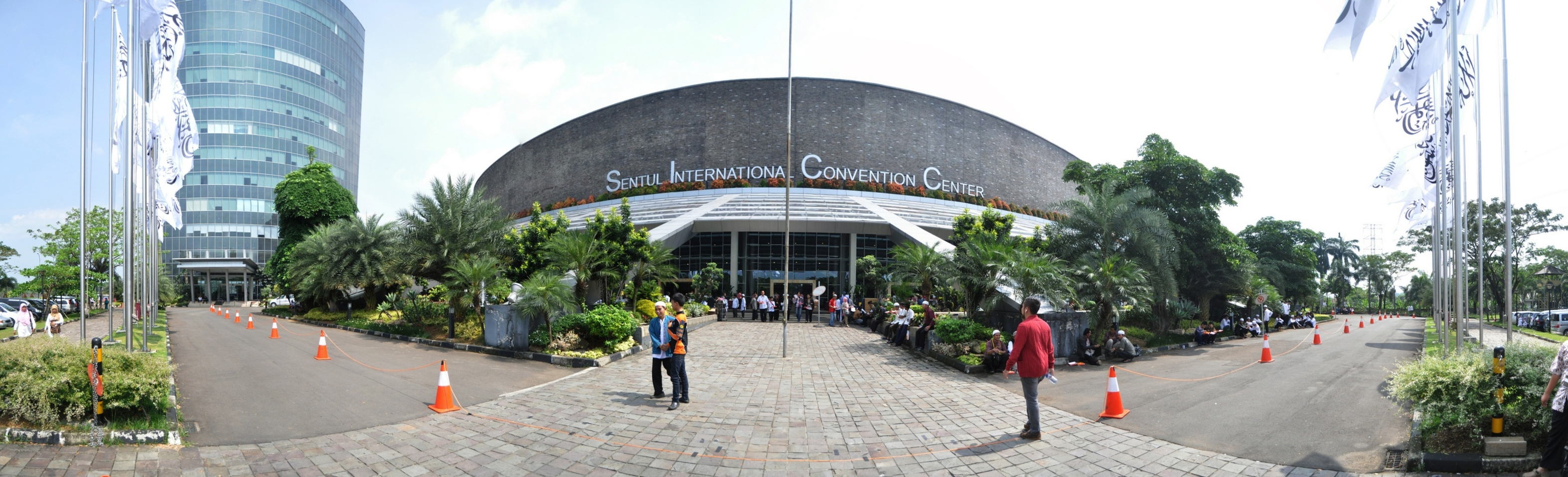 A panoramic view of Sentul International Convention Center. Photo was taken in front of main gate.